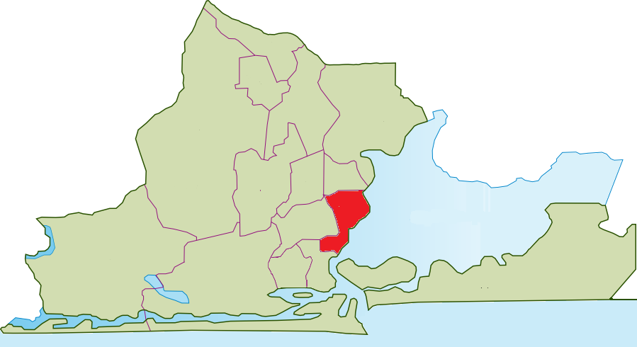 Map of Lagos Mainland LGA